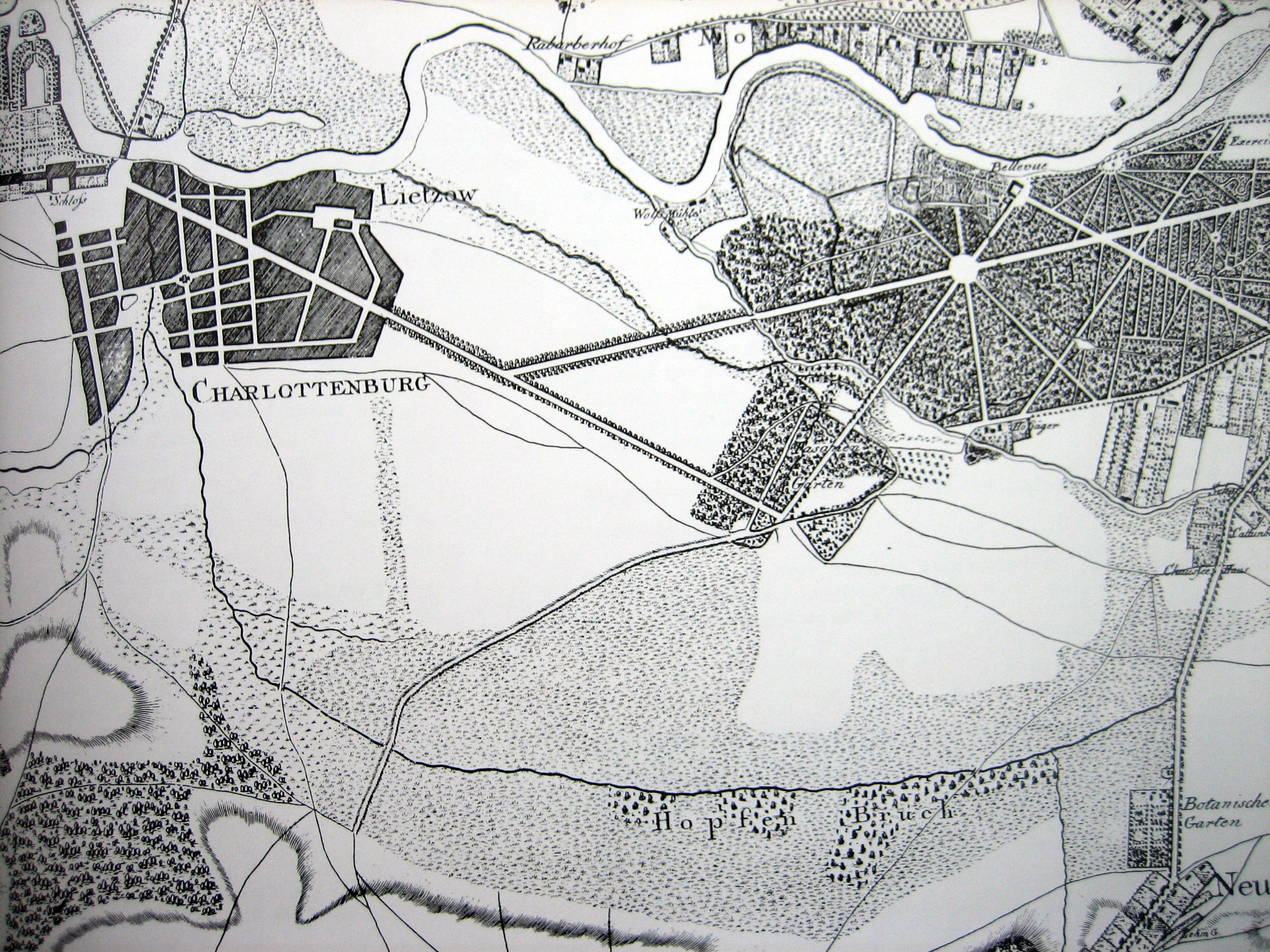 Charlottenburg, Lietzow and Hopfenbruch. Particular of a map of 1802 by Schneider Königlicher Preußischer Artillerie Lieutnant. Museum Charlottenburg. Detail.